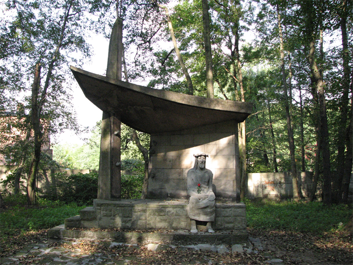 Calvary in Katowice Panewniki, Chapel of the Rosary - The third sorrowful mystery "Crowning with Thorns". Built in XX century.